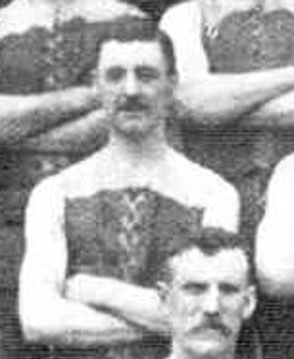 Photograph of Harry Newbound from 1904-1905